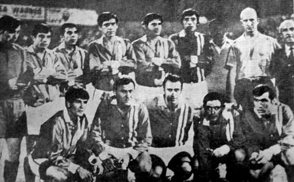 Godoy Cruz football team that played Argentina national squad.